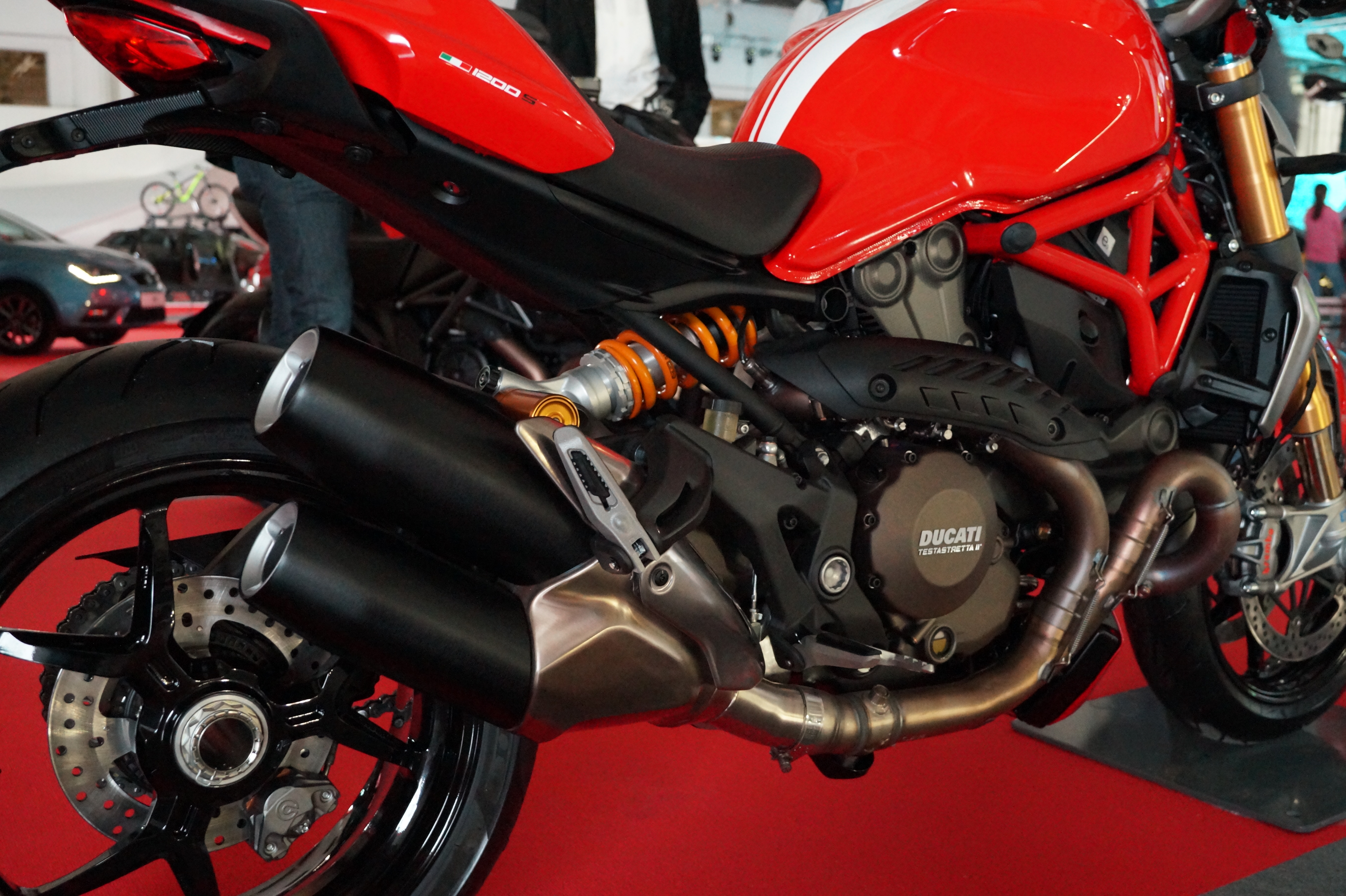 The making of this document was supported by Wikimedia Polska Association, within Wikigrant no. WG 2015-19. English | polski | +/− Układ napędowy motocykla Ducati Multistrada 1200S na Motor Show Poznań 2015